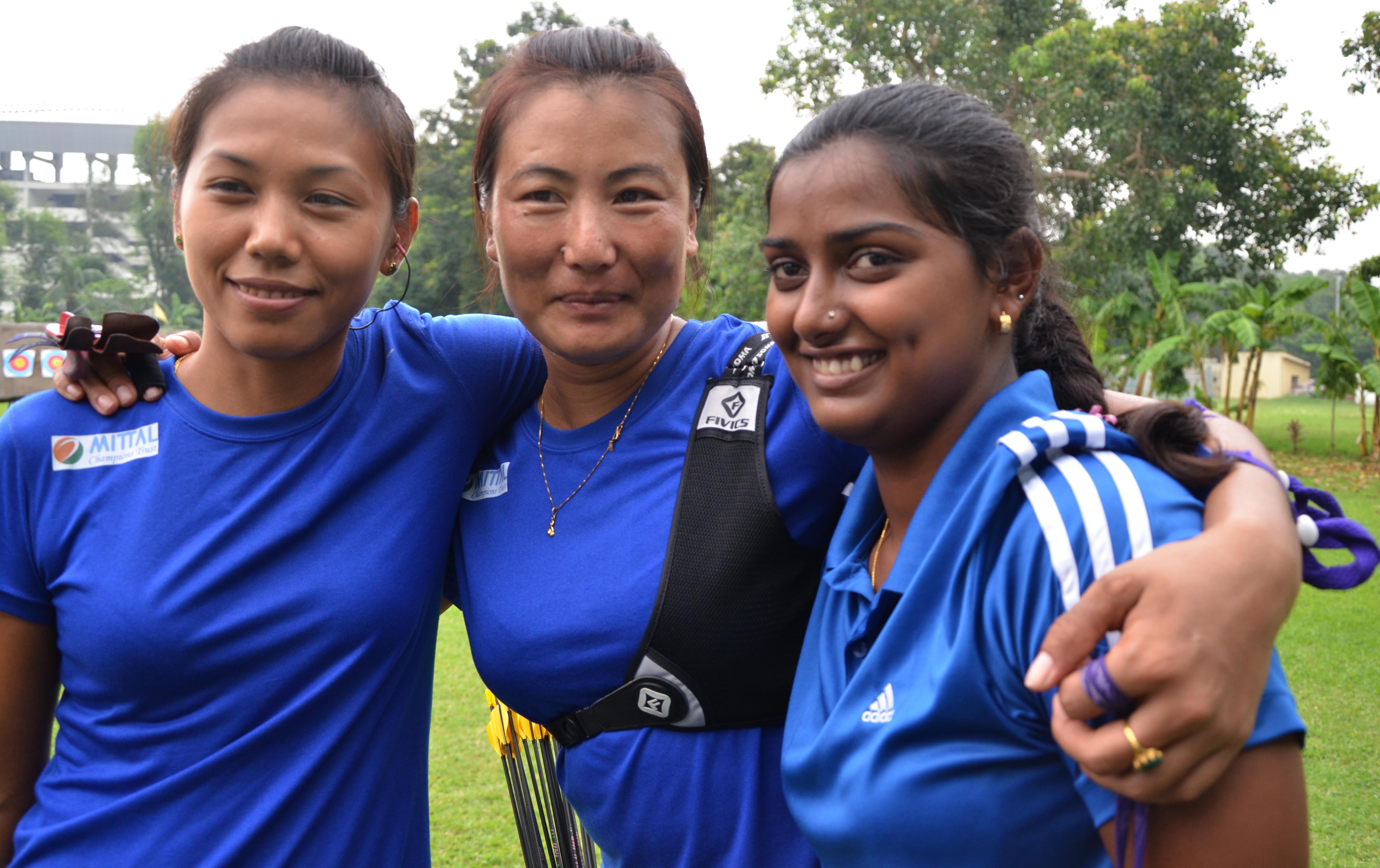 Womens Archery India Team Before Leaving For Olympics